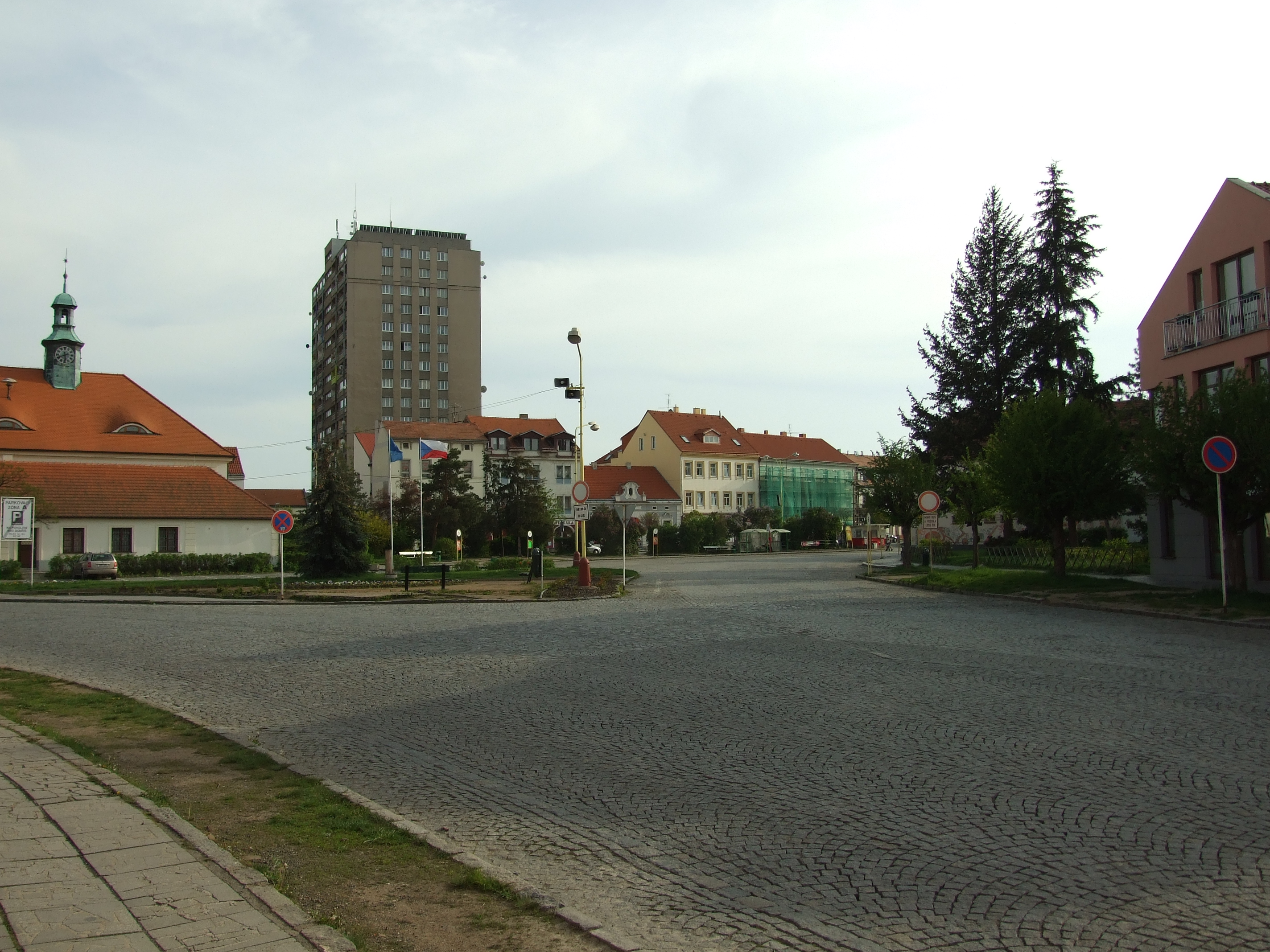 Town of Dobříš and its surrounding nature in Central Bohemian region, CZhelp